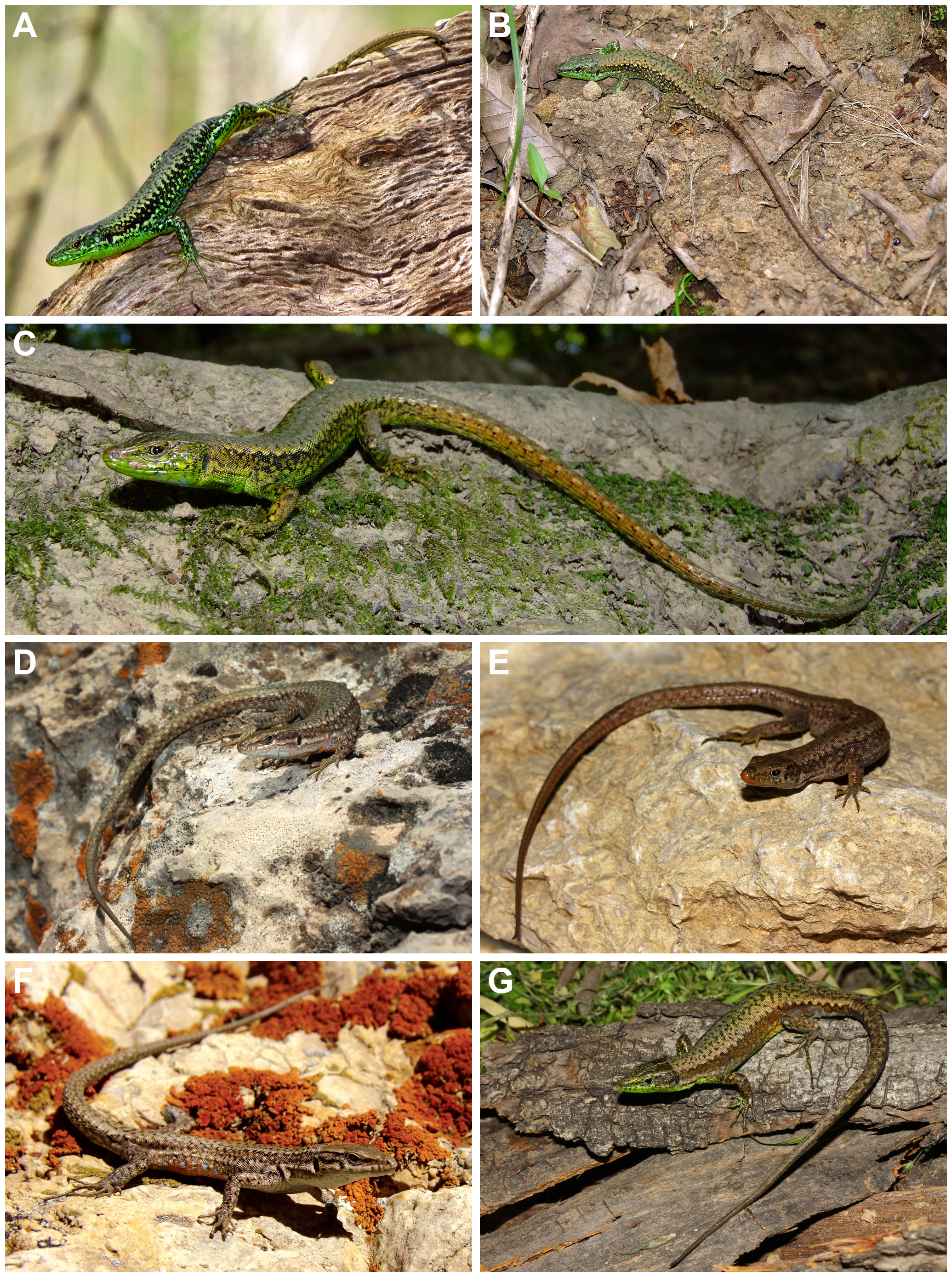 Darevskia species in life: Darevskia caspica (A; photo by N. Moradi); Darevskia chlorogaster (B; photo by M. Auer); Darevskia kamii (C; photo by O. Mozaffari); Darevskia defilippii (D; photo by A. Shahrdari) Darevskia kopetdaghica (E; photo by O. Mozaffari); Darevskia schaekeli (F; photo by Barbod Safaei Mahroo); and Darevskia steineri (G; photo by O. Mozaffari).